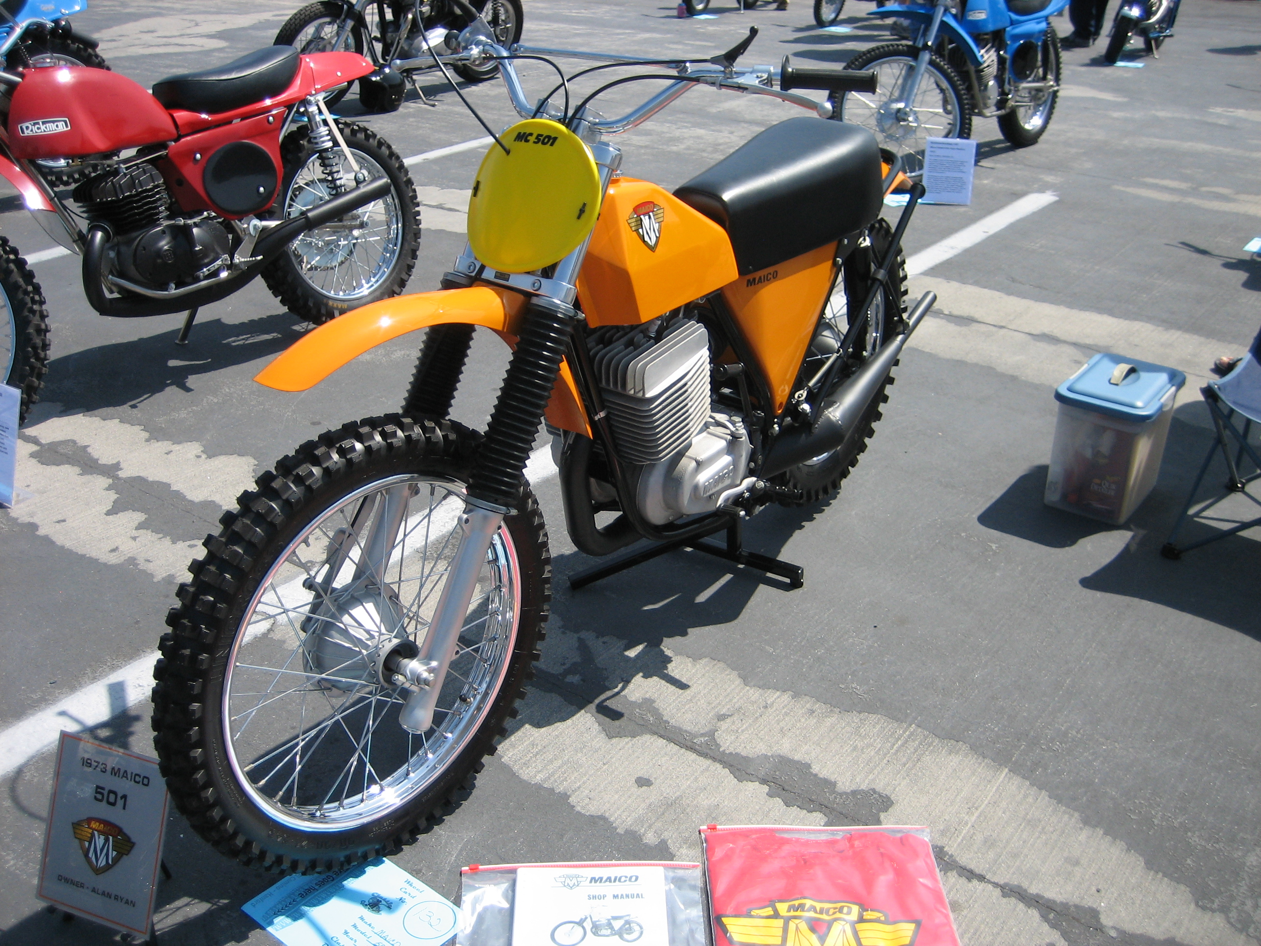 Maico MC 501, 1973 (beside a red Rickman with a Montesa Cappra engine)